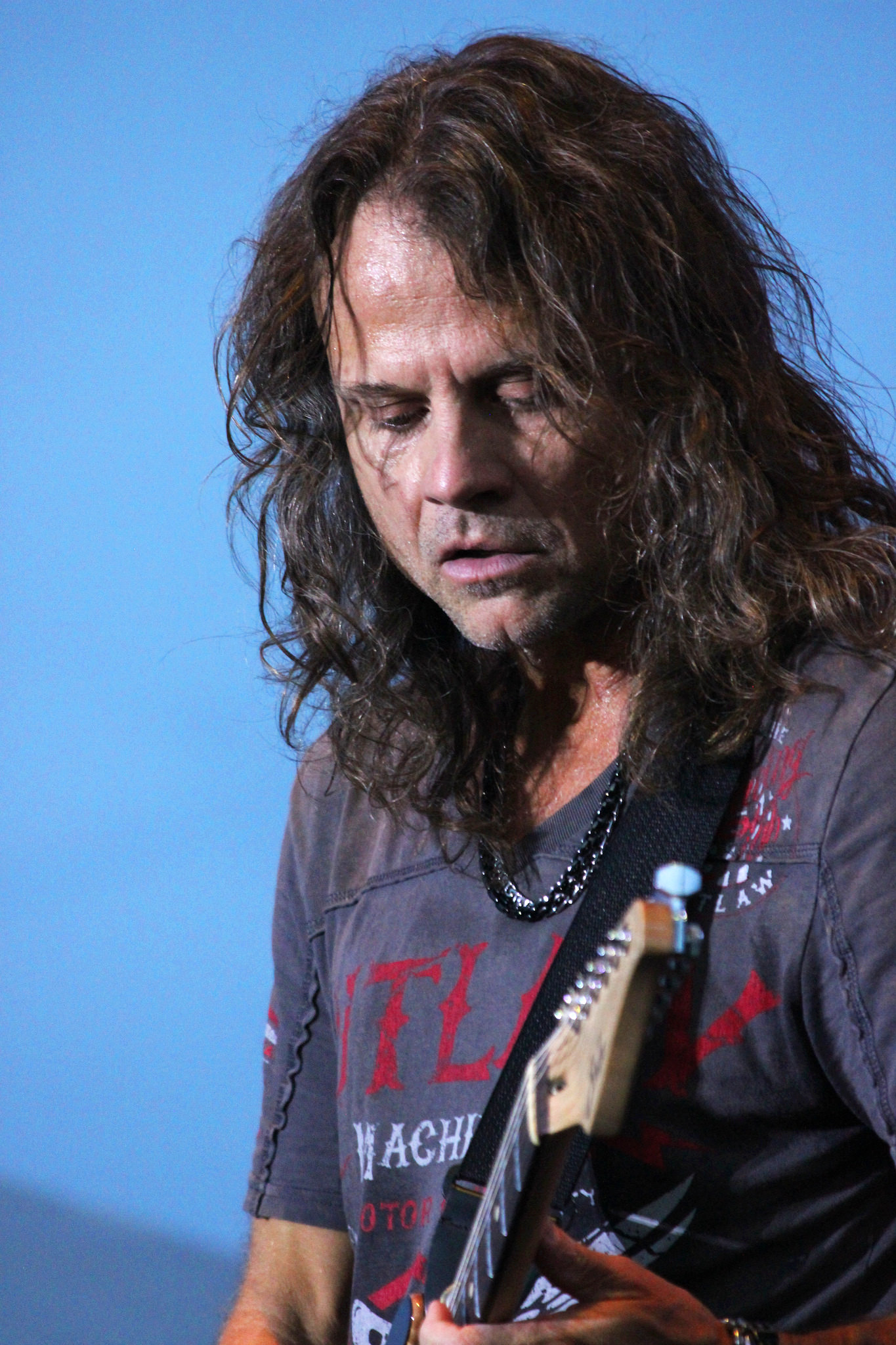 John Roth performing with Starship featuring Mickey Thomas at Memorial Park in Omaha, Neb.